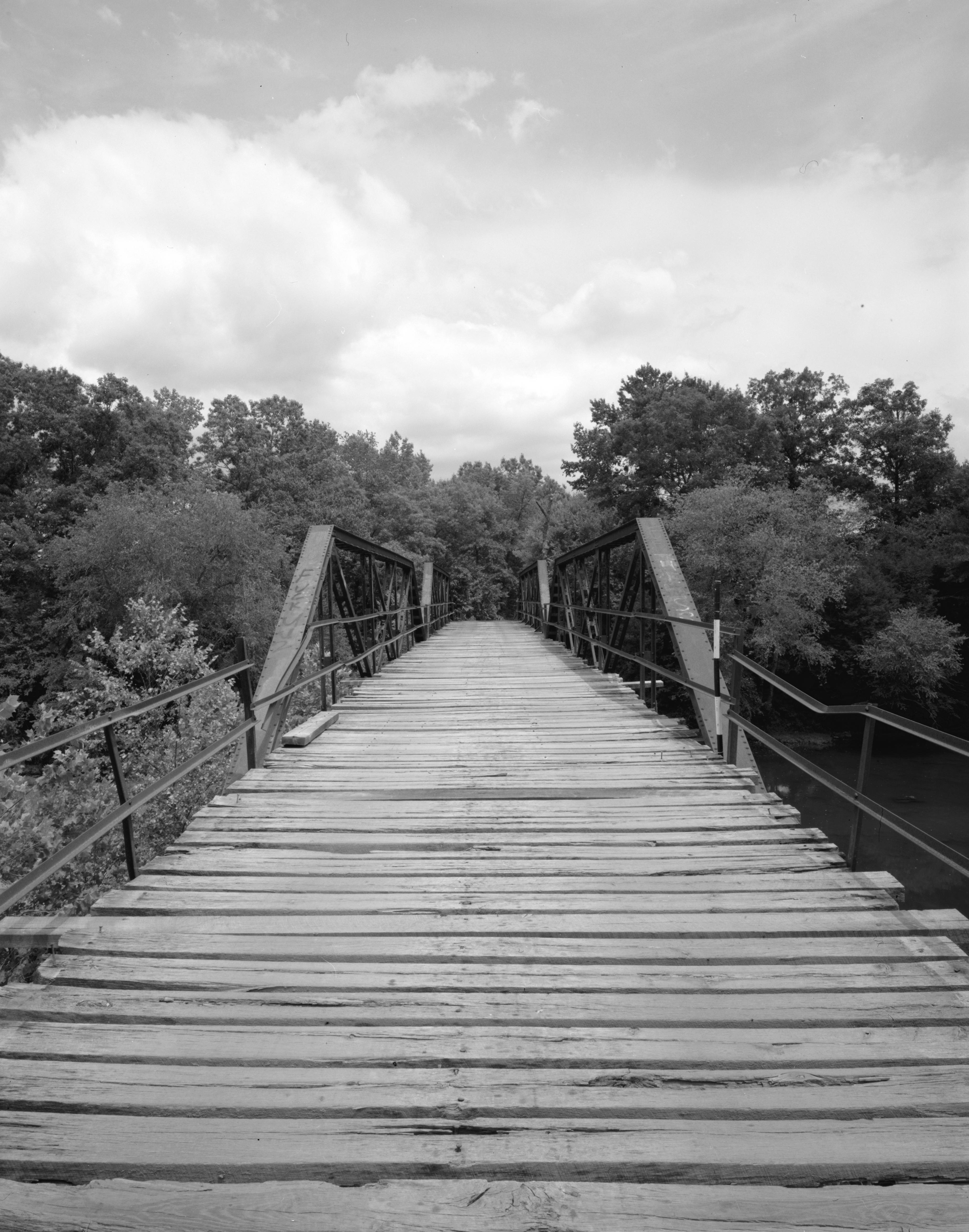 Looking west on the Mountain Fork Bridge, which carries County Road 38 over Mountain Fork Creek near Mena in Saline County, Arkansas, United States. Built in 1926, this Pratt pony truss bridge is listed on the National Register of Historic Places.